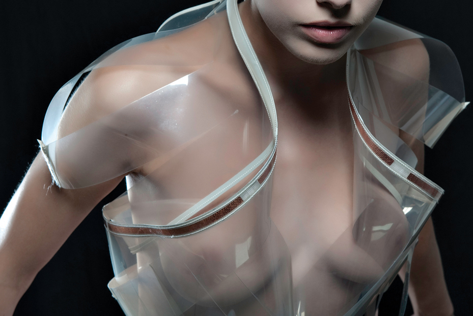 INTIMACY is a fashion project exploring the relation between intimacy and technology. Its high-tech garments entitled 'Intimacy White' and 'Intimacy Black' are made out of opaque smart e-foils that become increasingly transparent based on close and personal encounters with people. Social interactions determine the garments’ level of transparency, creating a sensual play of disclosure.